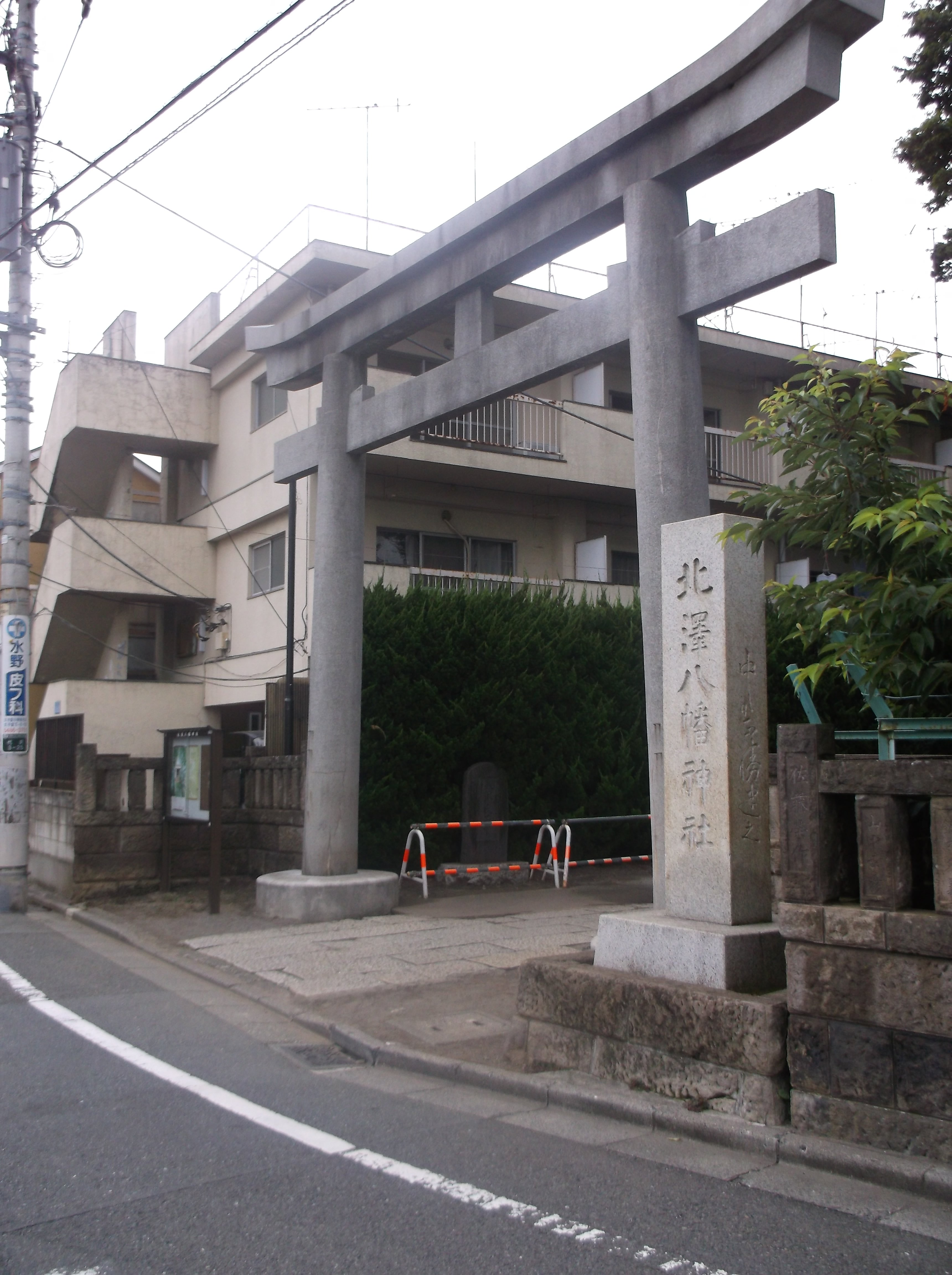 A photo of the entrace of Kitazawa Hachiman Shrine,Daizawa,Setagaka-ku,Tokyo,Japan.